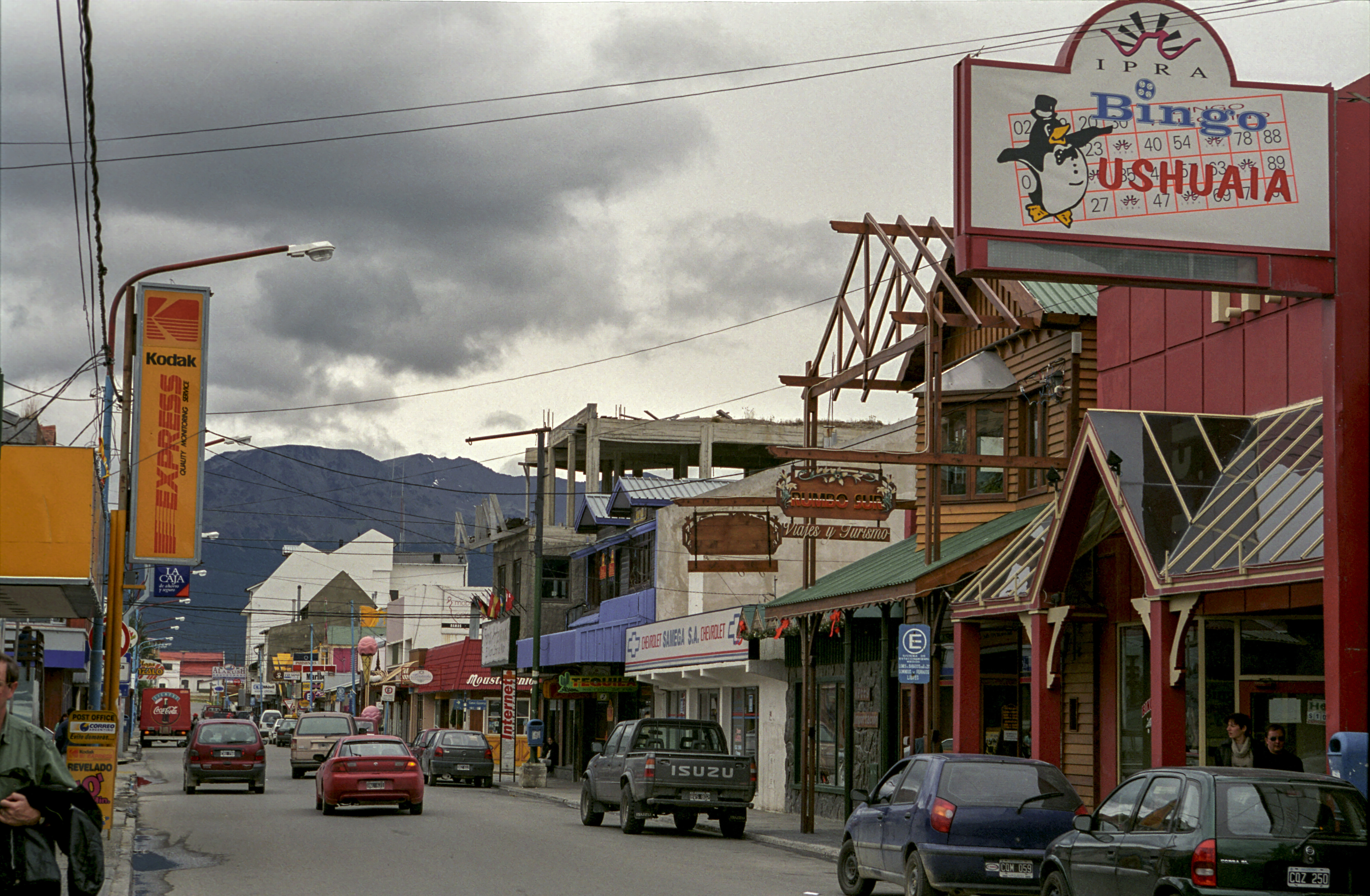 Ushuaia, main street